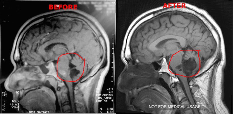 MRI scans 10.5 years apart - Tumor has more than doubled in size and grown into brain strem